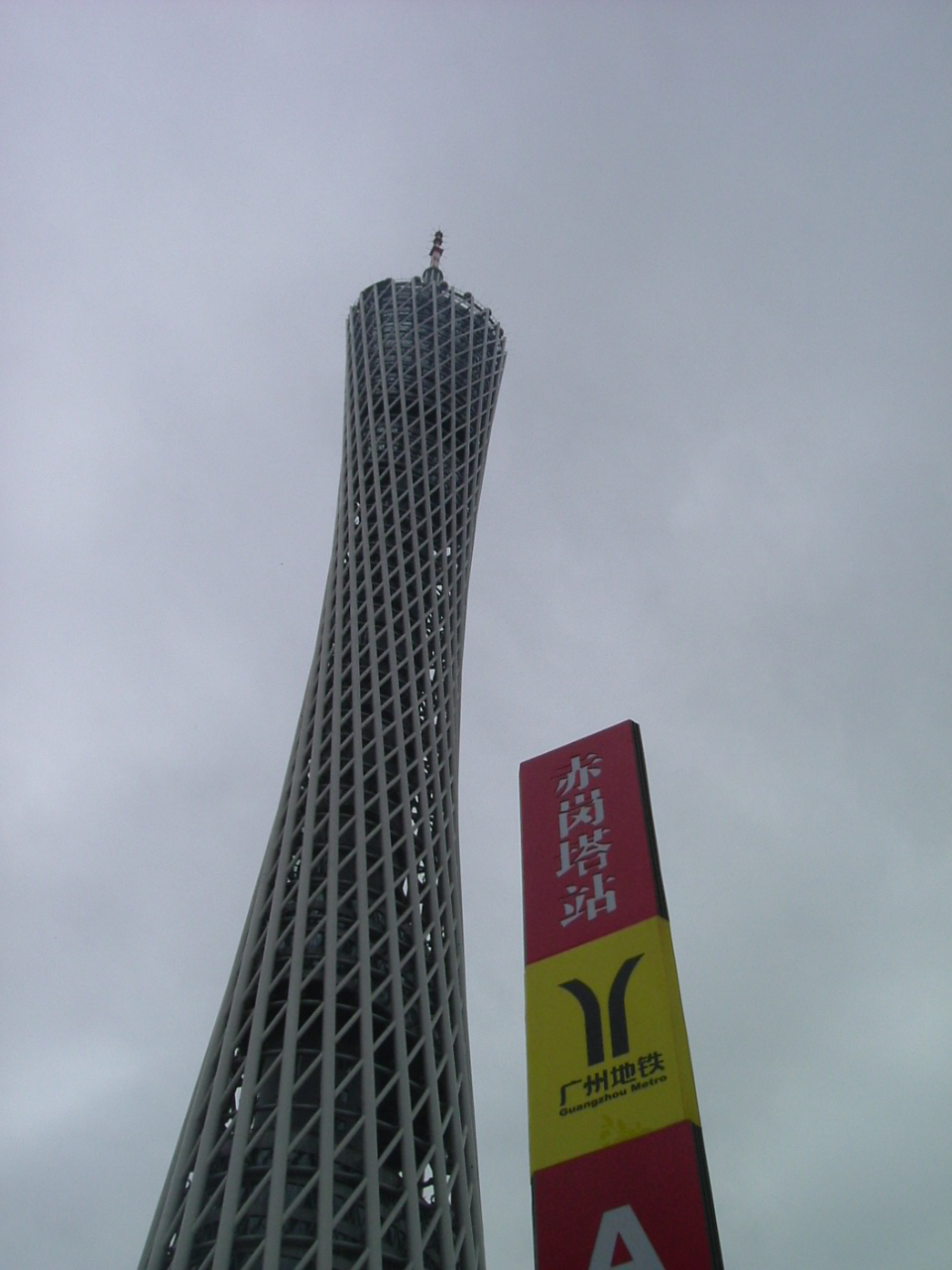 Canton_Tower_Metro_Exit